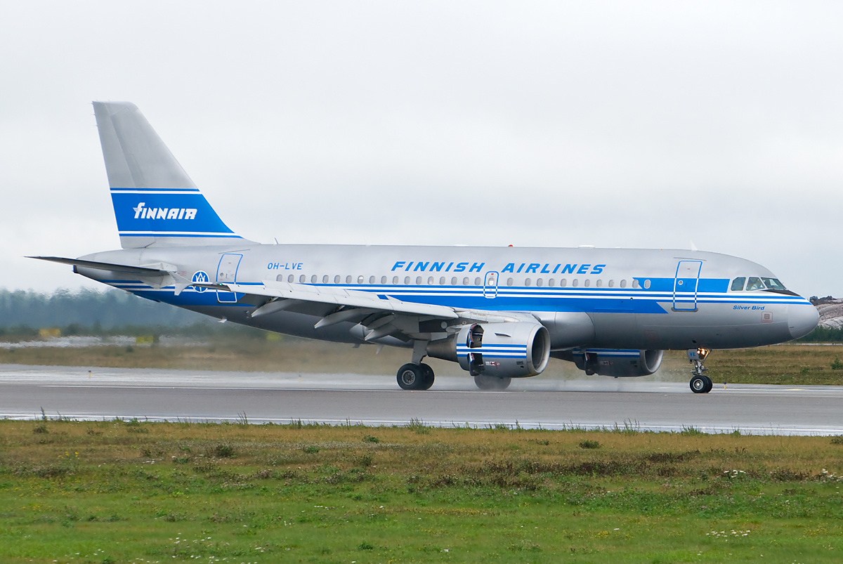 Finnair Airbus A319 retrojet at Helsinki-Vantaa Airport